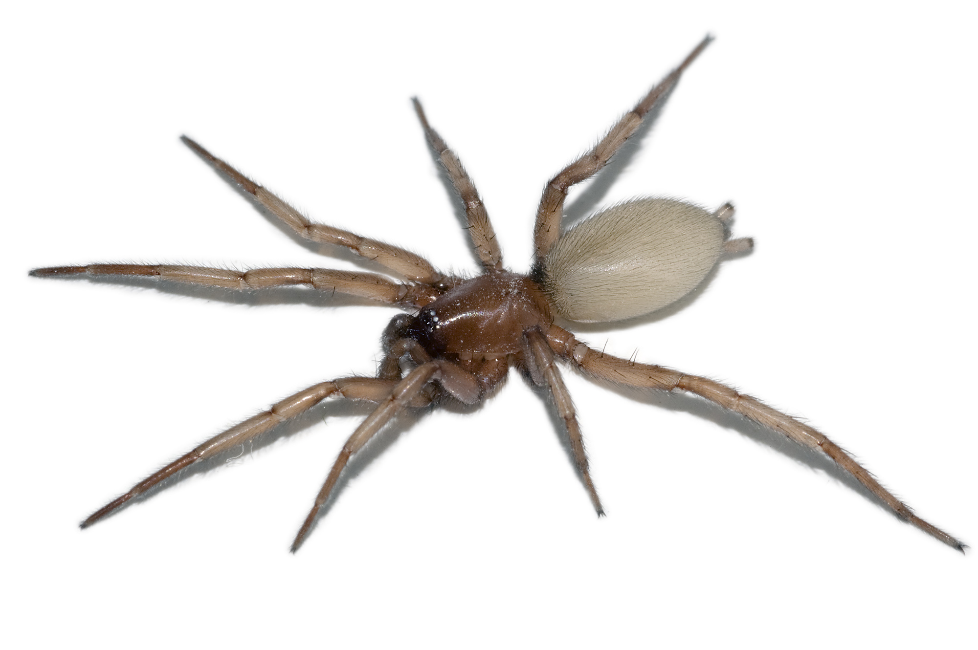 Ground spider (Gnaphosidae). This specimen measures about 30 mm long with legs extended.